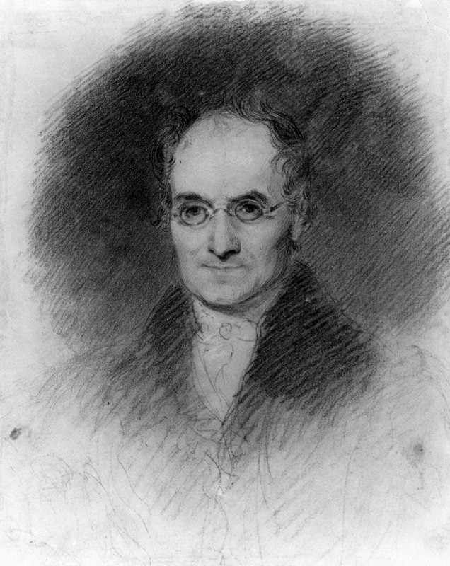 Portrait drawing of William Holl the Elder (1771–1838), English engraver.